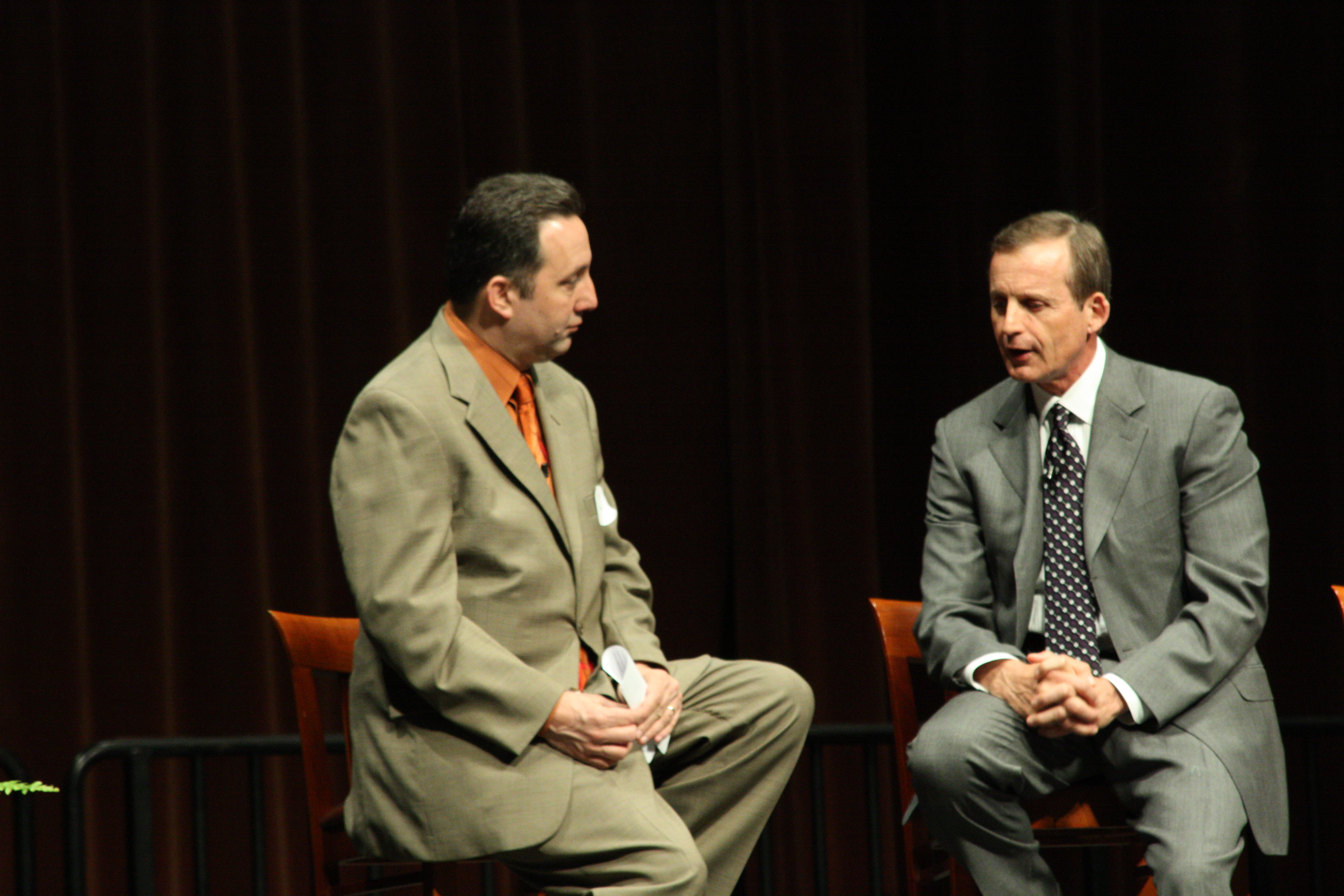 University of Texas men's basketball play-by-play announcer Craig Way interviews head coach Rick Barnes at the Texas 2009 basketball banquet.